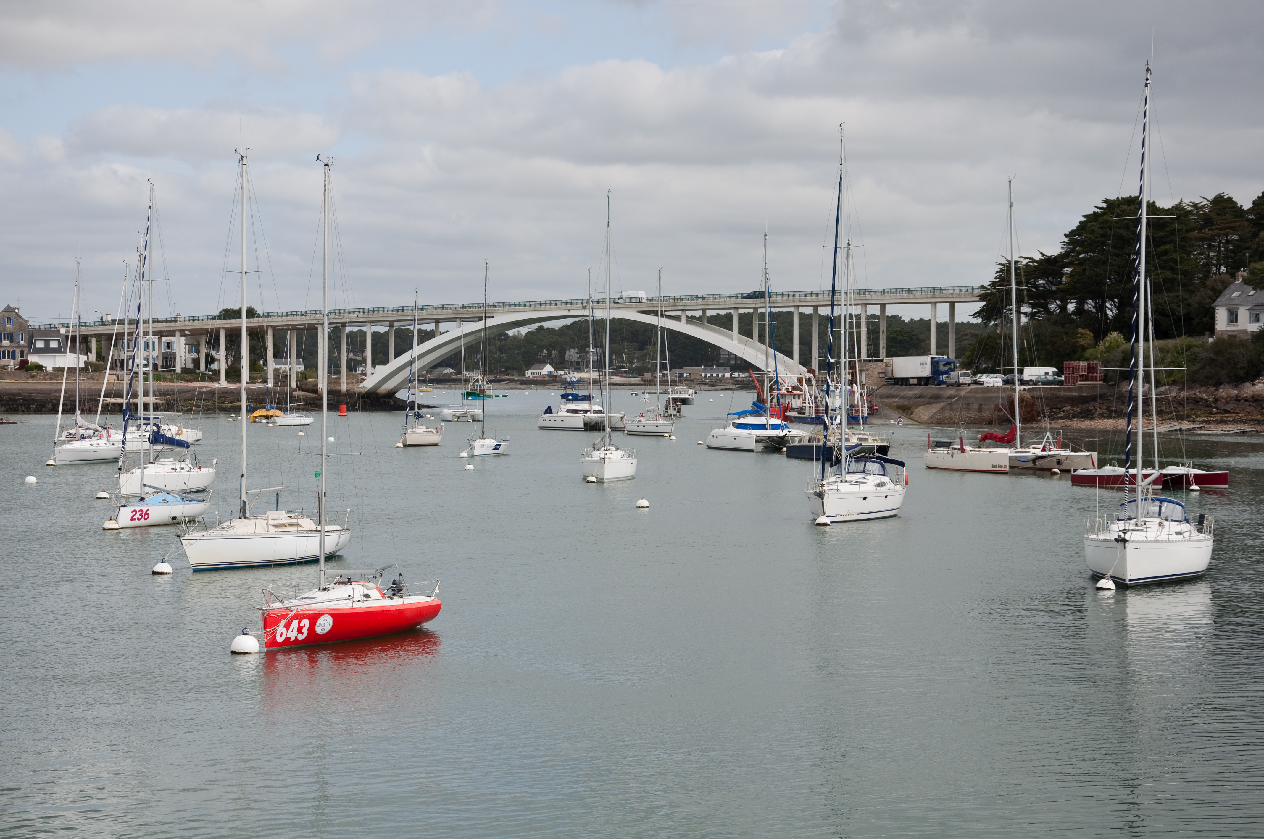 La Trinité-sur-Mer (Morbihan, Brittany, France): moored boats in front of the Kerisper bridge, on the Crac'h river.